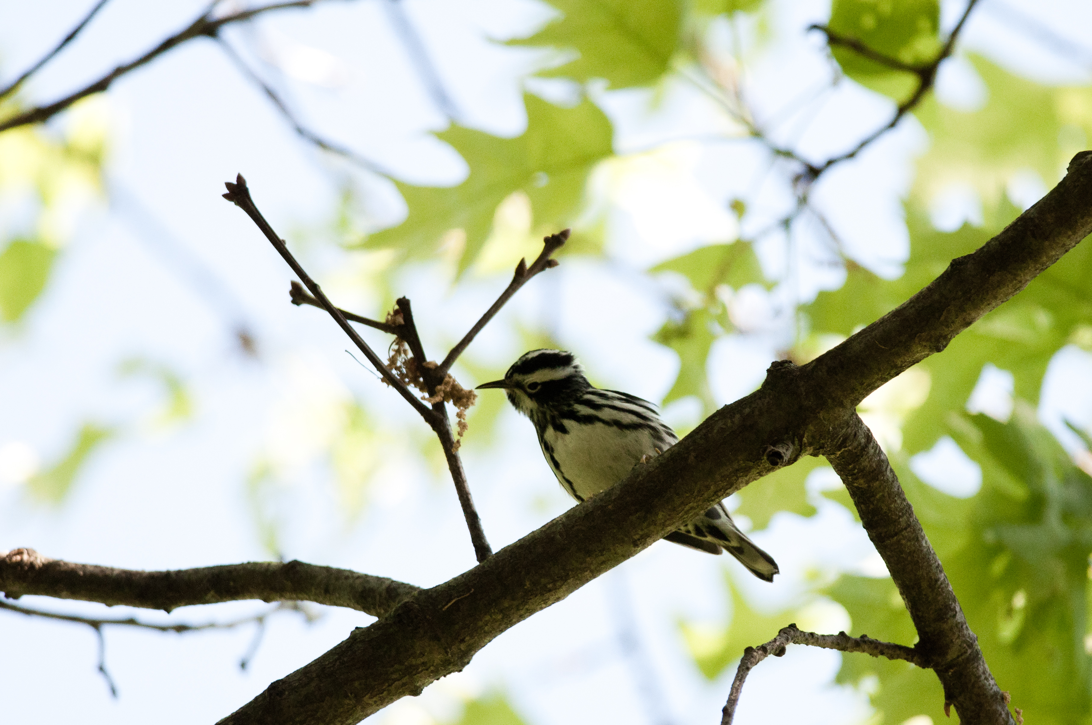 Wompatuck State Park, May 12, 2012